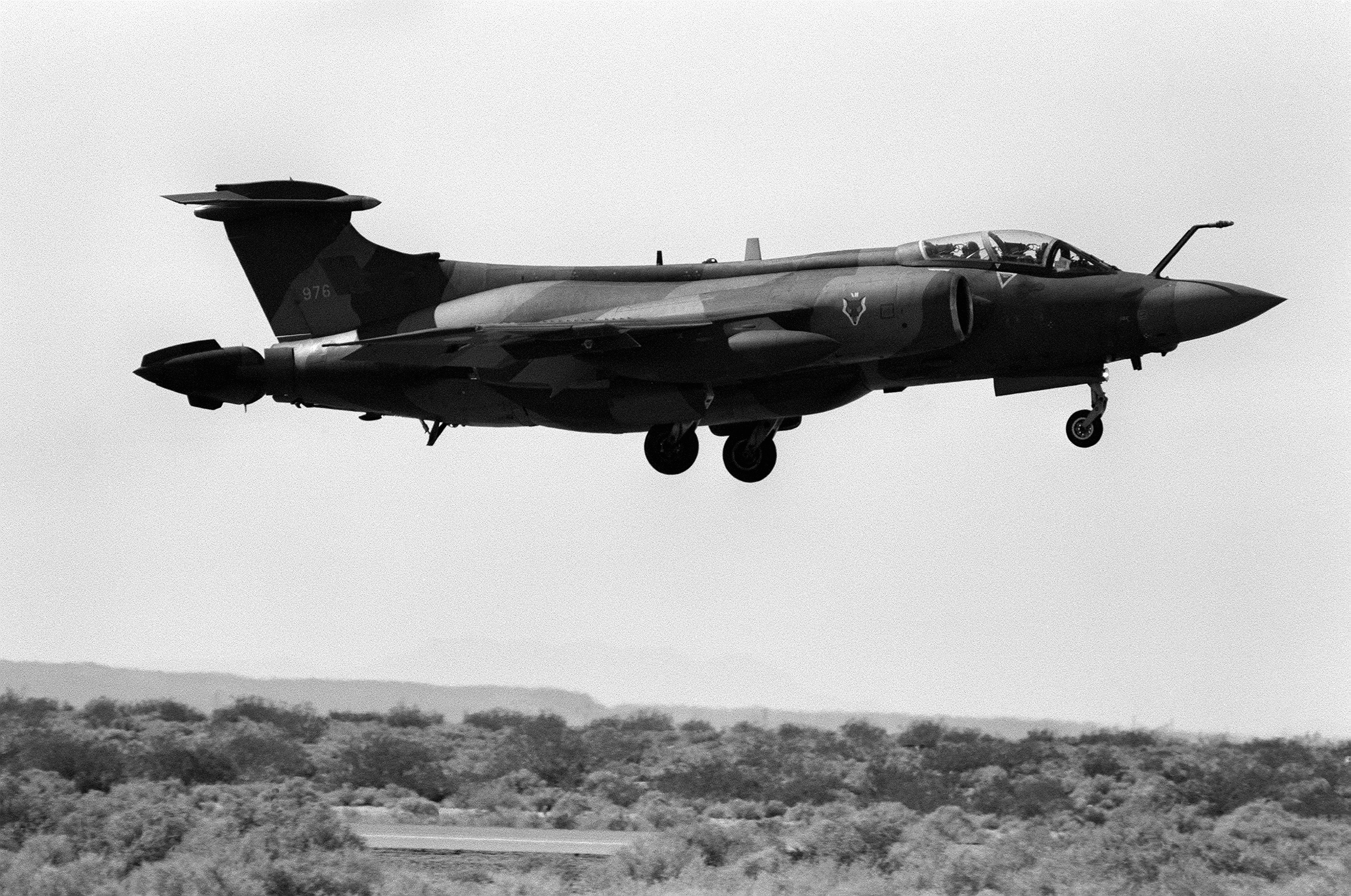 A Hawker Siddeley Buccaneer S.2B of No. 12 Squadron, Royal Air Force, performing a touch and go landing at the U.S. Navy Naval Weapons Center at China Lake, California (USA), during an air show of USN test and evaluation squadron VX-5 on 16 September 1981.